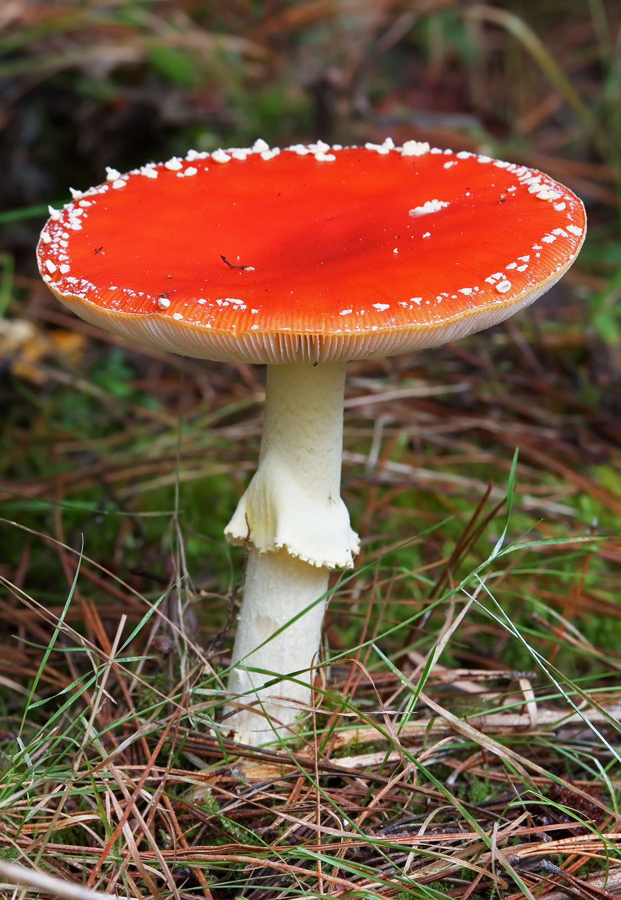 Amanita muscaria, Marriott Falls Track, Tasmania, Australia